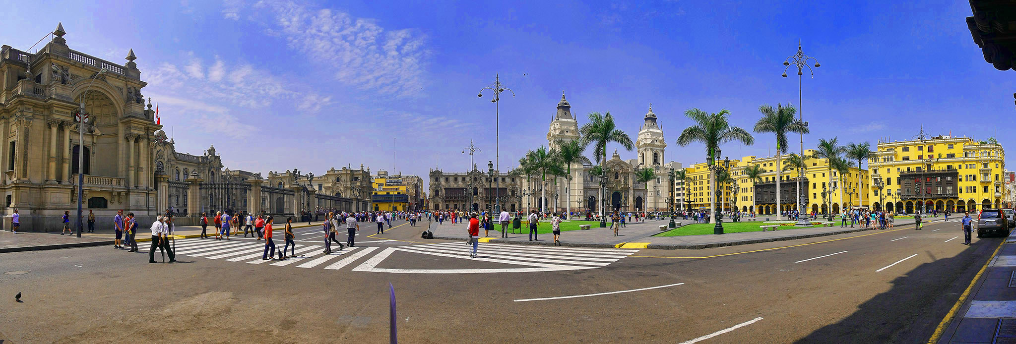 Plaza de Armas, Lima, Peru